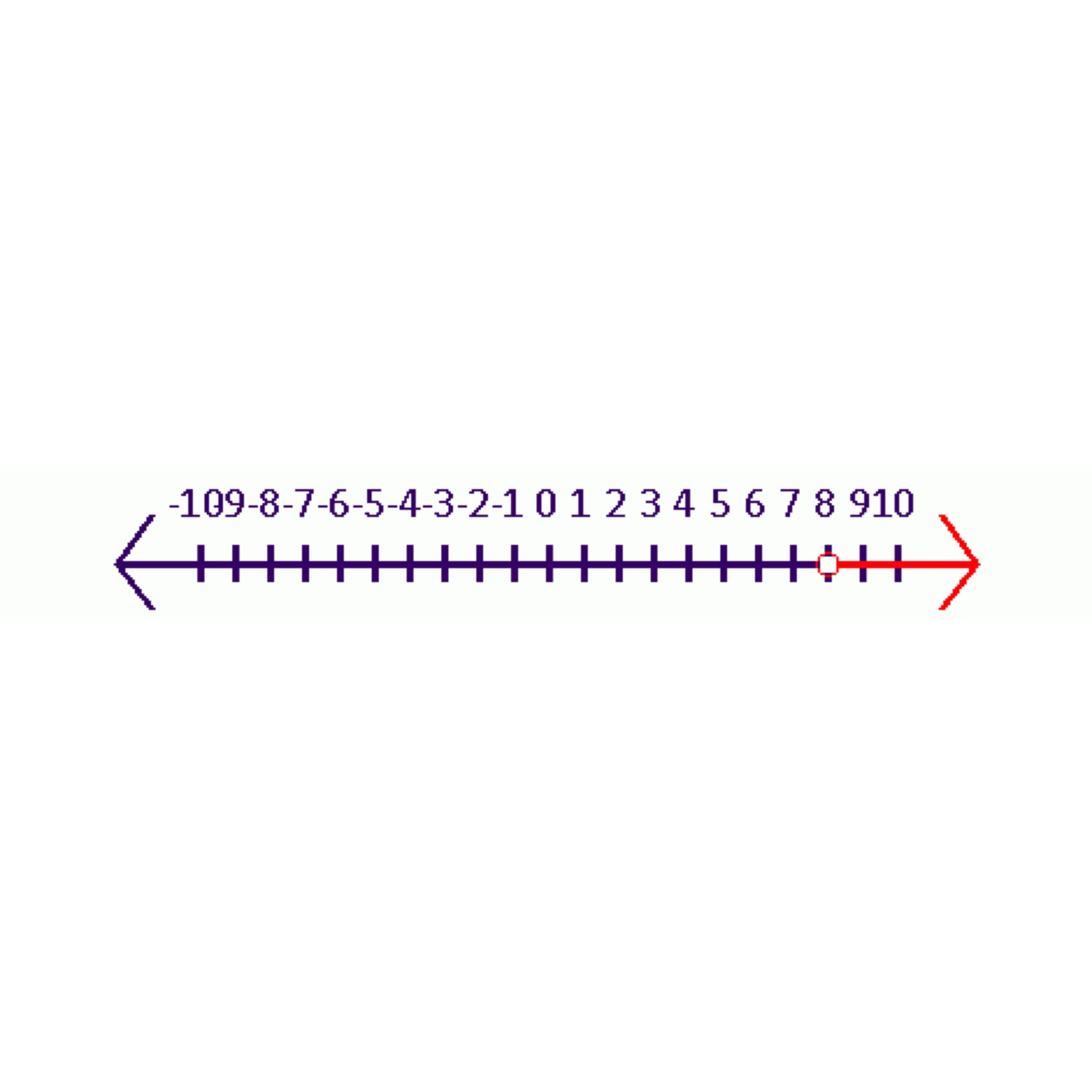 I made this photo to give an example about inequality